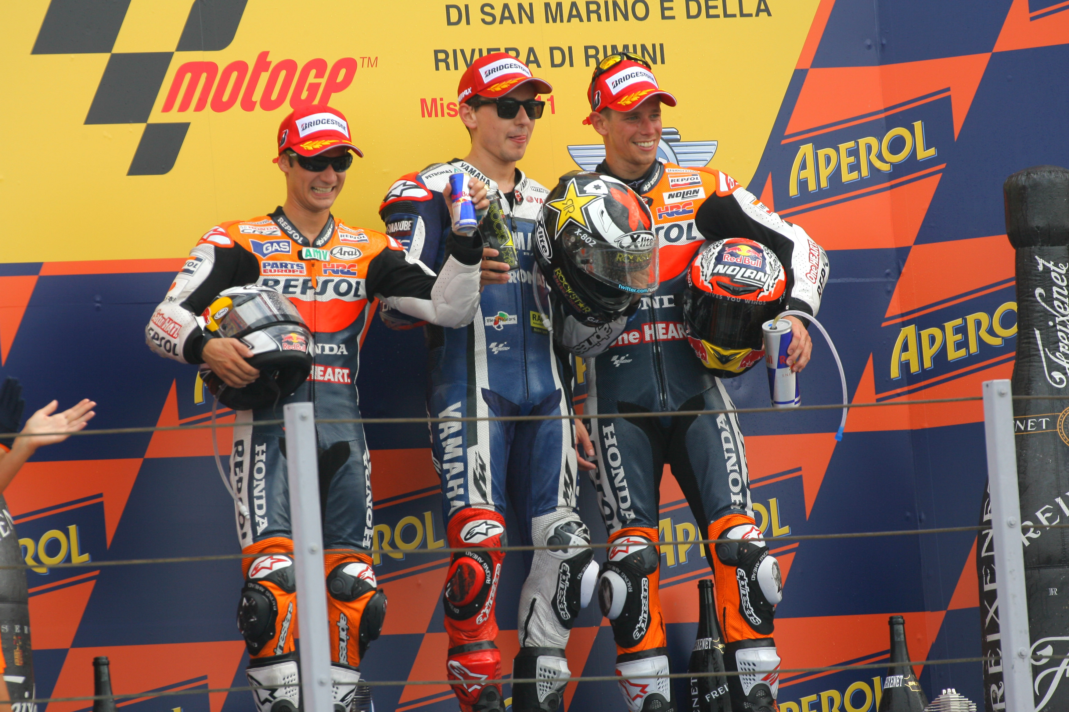 Dani Pedrosa, Jorge Lorenzo and Casey Stoner, posing for a photo and celebrating on the podium after finishing in second, first and third place at the 2011 San Marino and Rimini's Coast Grand Prix.